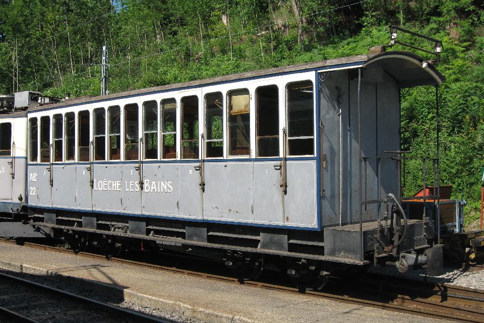 Compartment coach AB4 22 of the Leuk–Leukerbad Railway (LLB) at the Blonay–Chamby Museum Railway (BC) in Chamby-Musée (Chaulin) at Summer 2011.